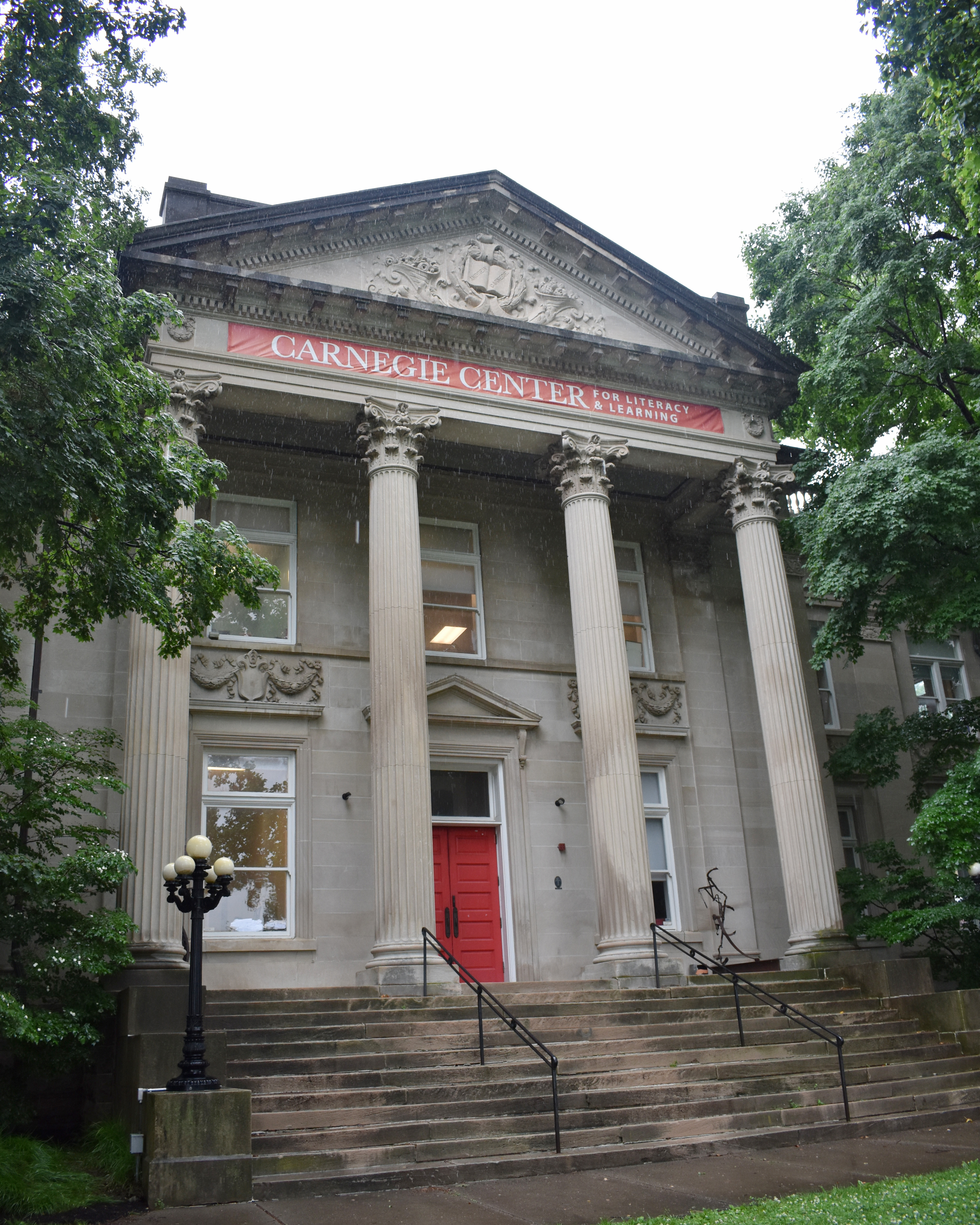 The Carnegie Library (1904) in Lexington, Kentucky, is a contributing resource in the Gratz Park Historic District. The building has been repurposed as the Carnegie Center for Literacy and Learning.